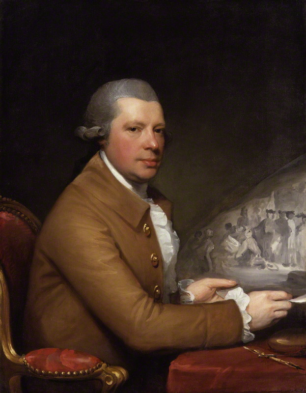 The sitter is holding his engraving of Benjamin West's painting "Penn's Treaty with the Indians".